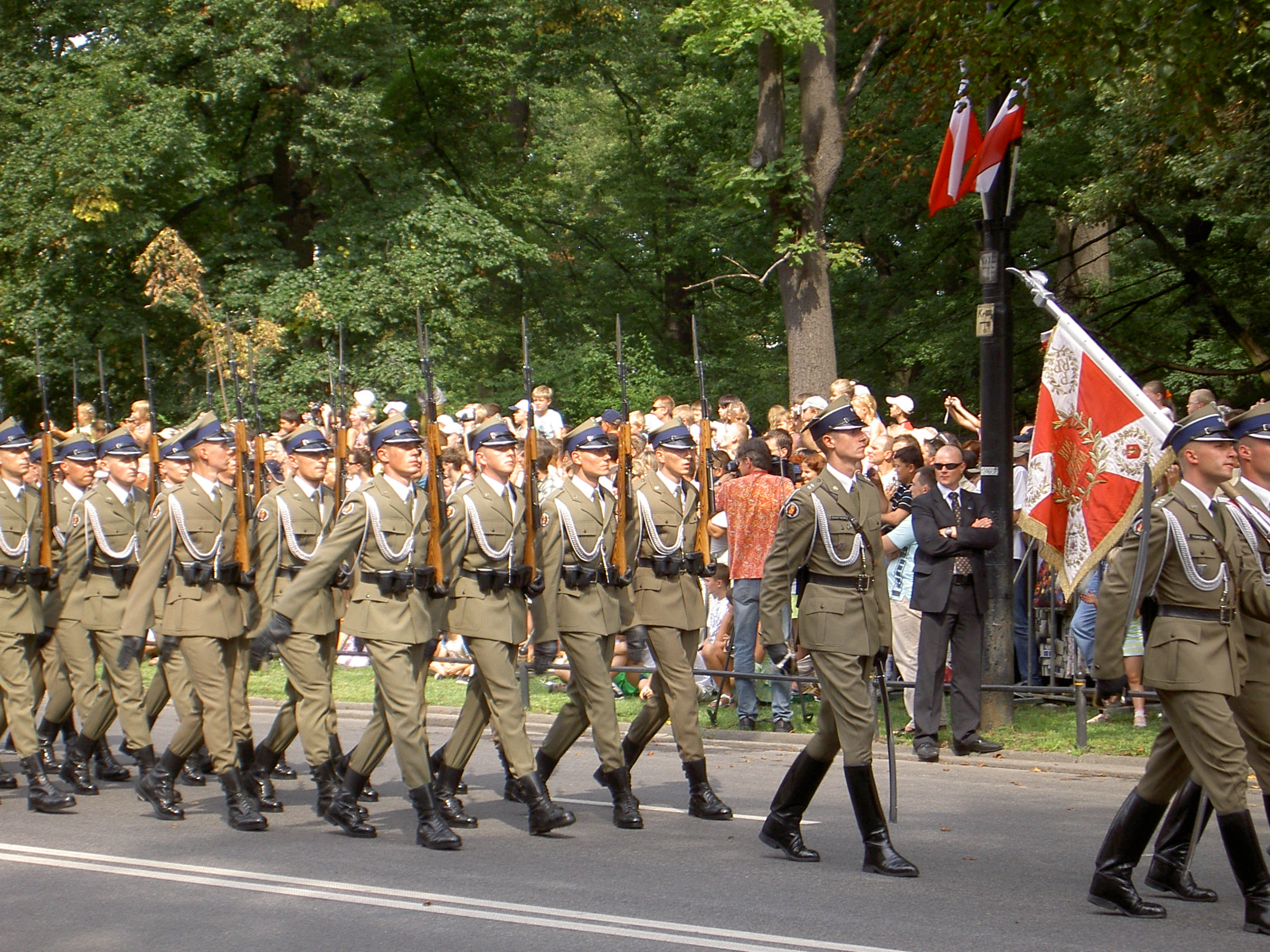 Guard of honor of the Polish Army